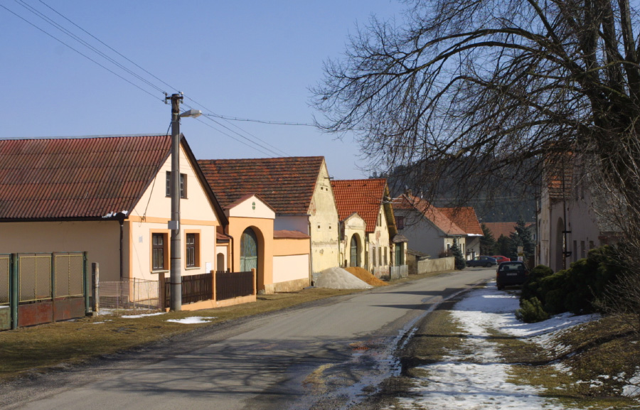 Houses along the Pilsen road in Nadryby, Czech Republic.